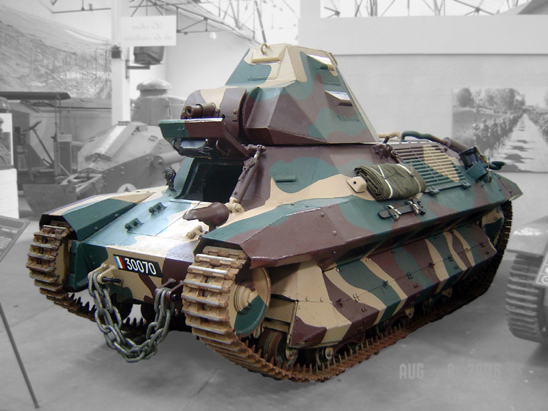 FCM 36 on display at the Musée des Blindés in Saumur. The picture taken August 8, 2006.